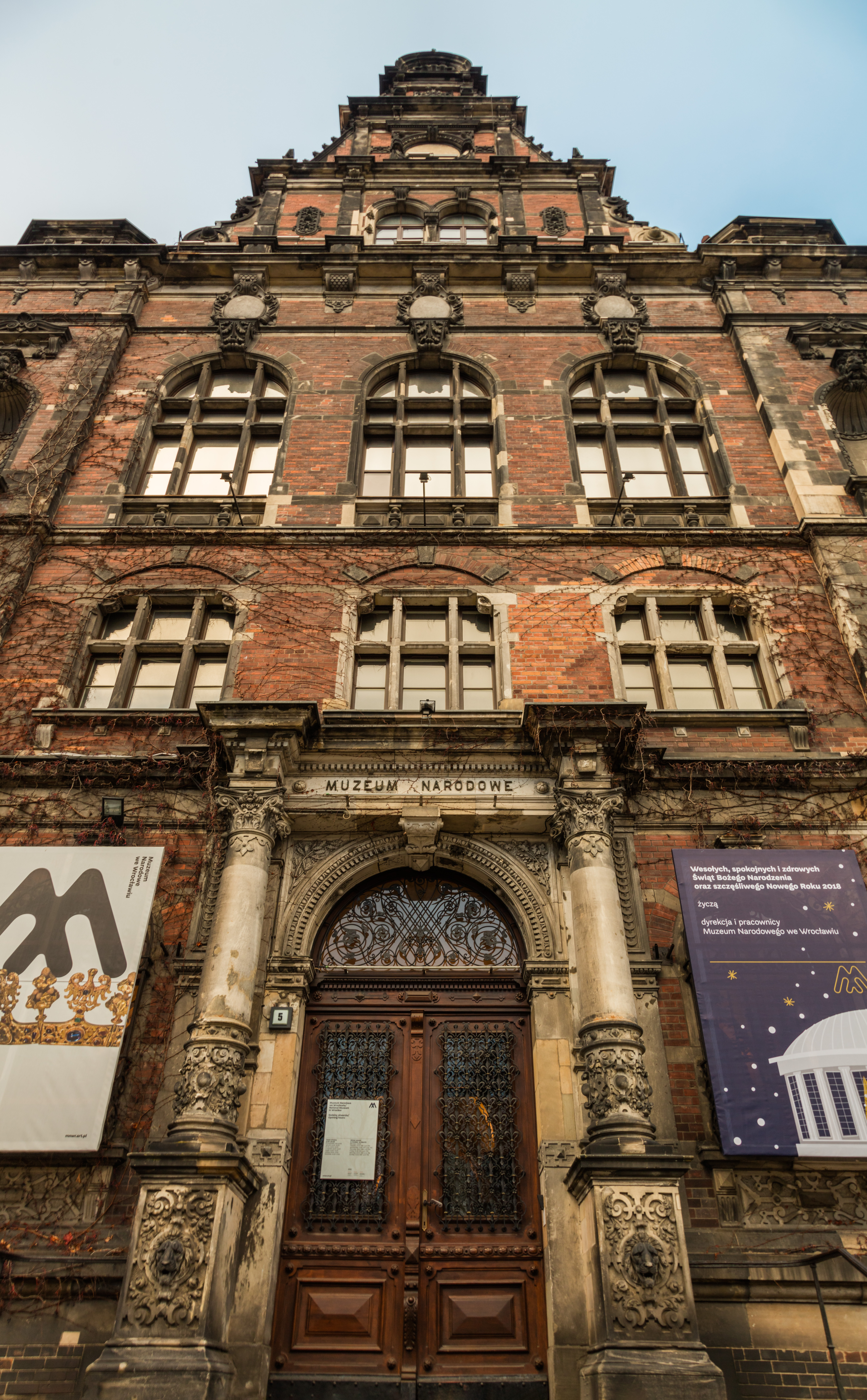 Building of the National Museum, Wrocław, Poland